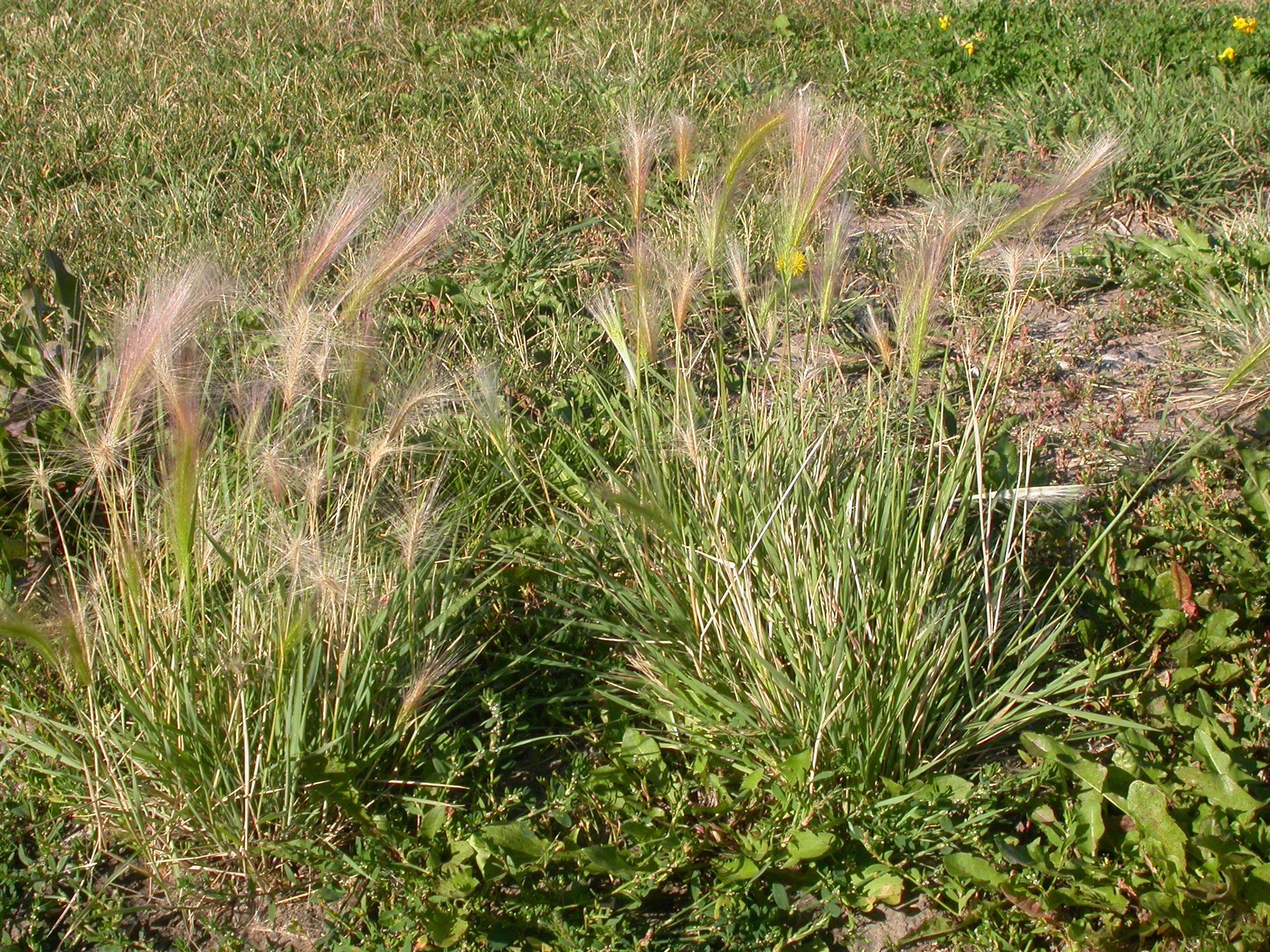 Hordeum jubatum is prone to invade lawns especially where lawn grass cover is a bit patchy (e.g., edges, gravelly spots).